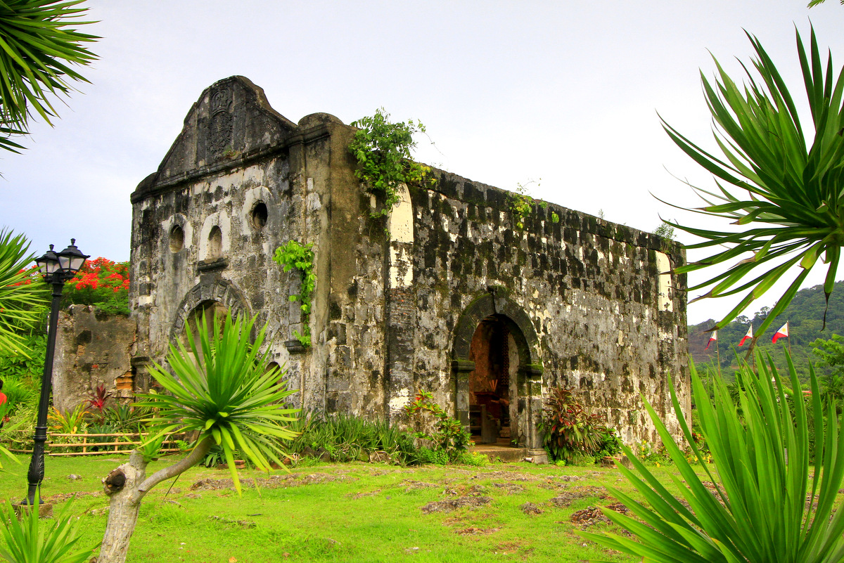 Ruins of chapel inside Fort Sta. Isabel